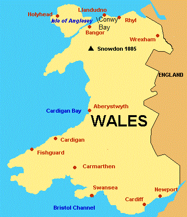 Map of Wales and Conwy Bay identified.